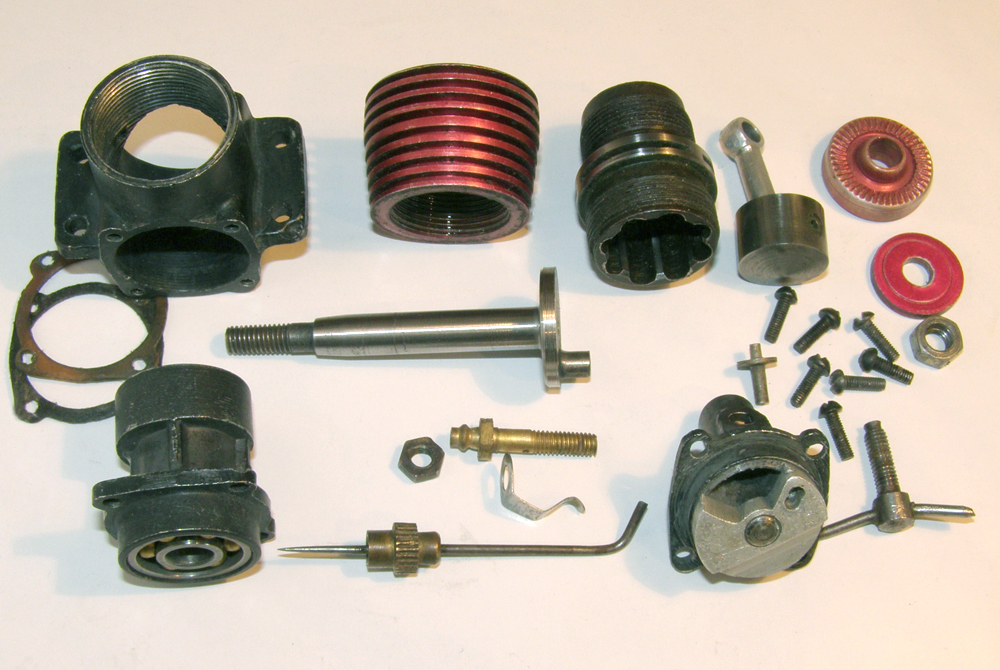 USSR model engine MK-12W